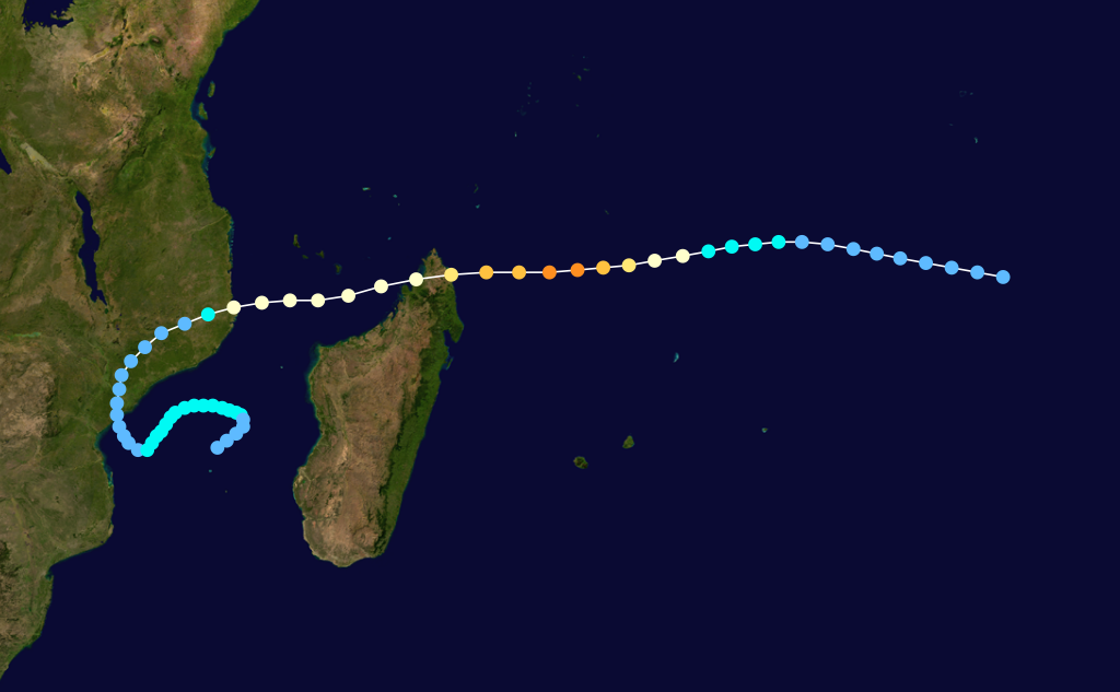 Cyclone Nadia (1994) track. Uses the color scheme from the Saffir-Simpson Hurricane Scale.